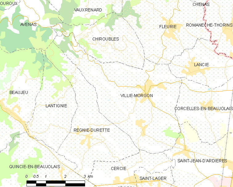 Map of French municipality